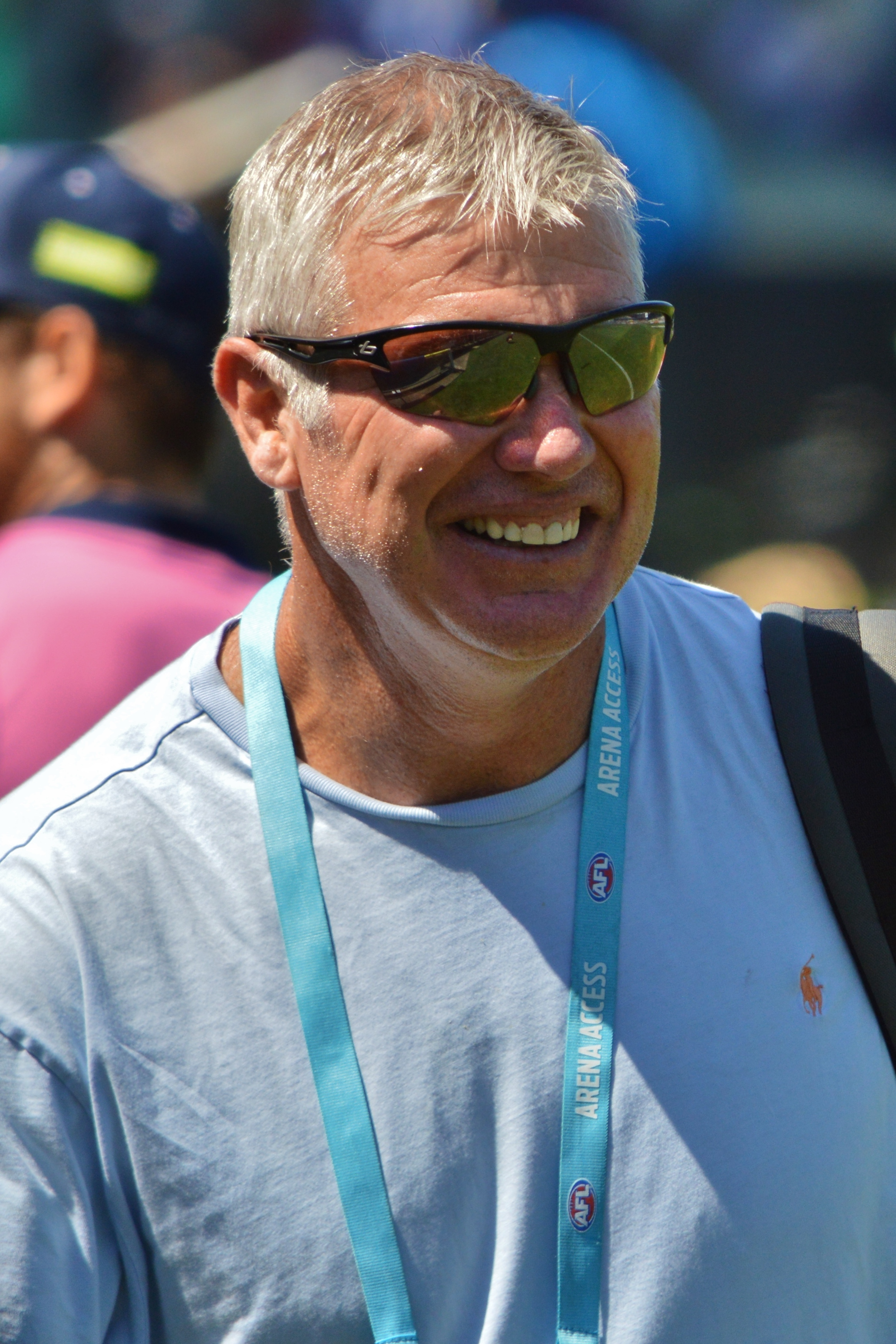 Danny Frawley at a pre-season match in March 2017